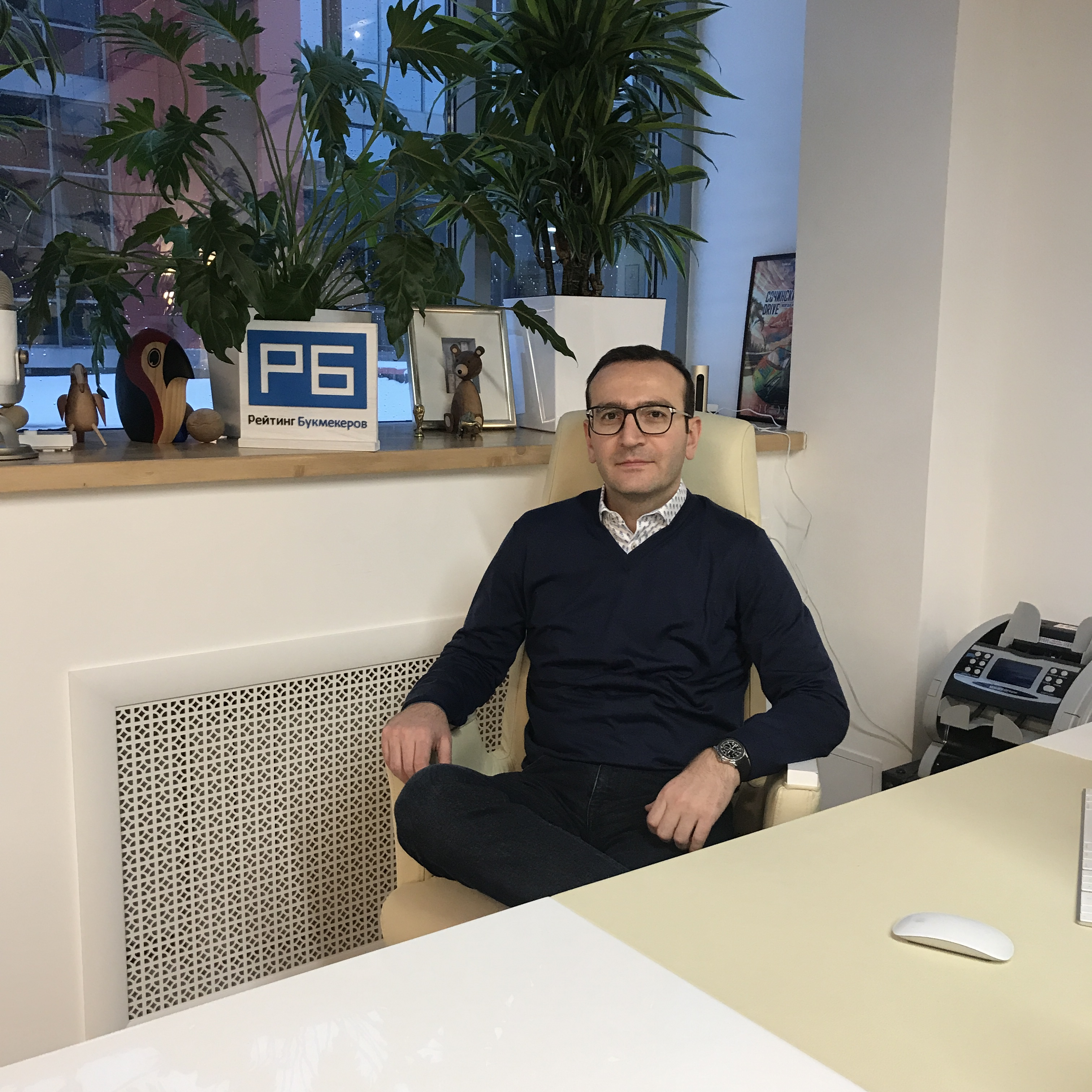 Paruyr Shahbazyan in the office of The Bookmaker Ratings